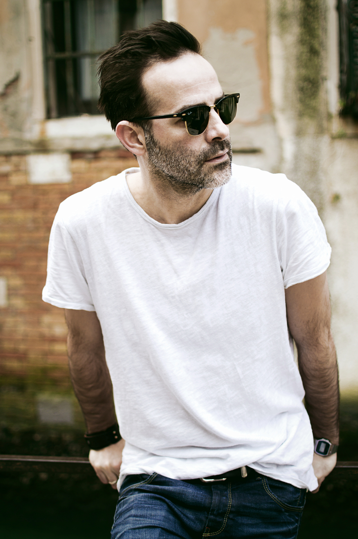 Actor Beat Marti photographed by the Agency LuckyPunch in Venice